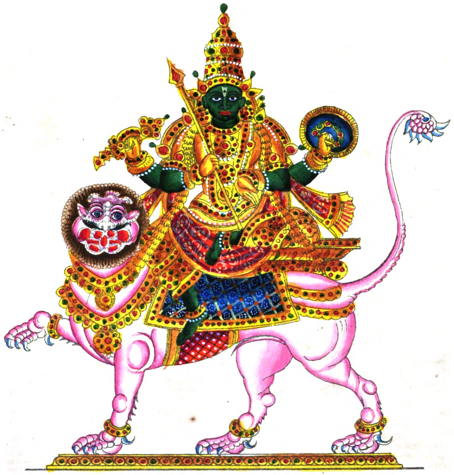 Rahu